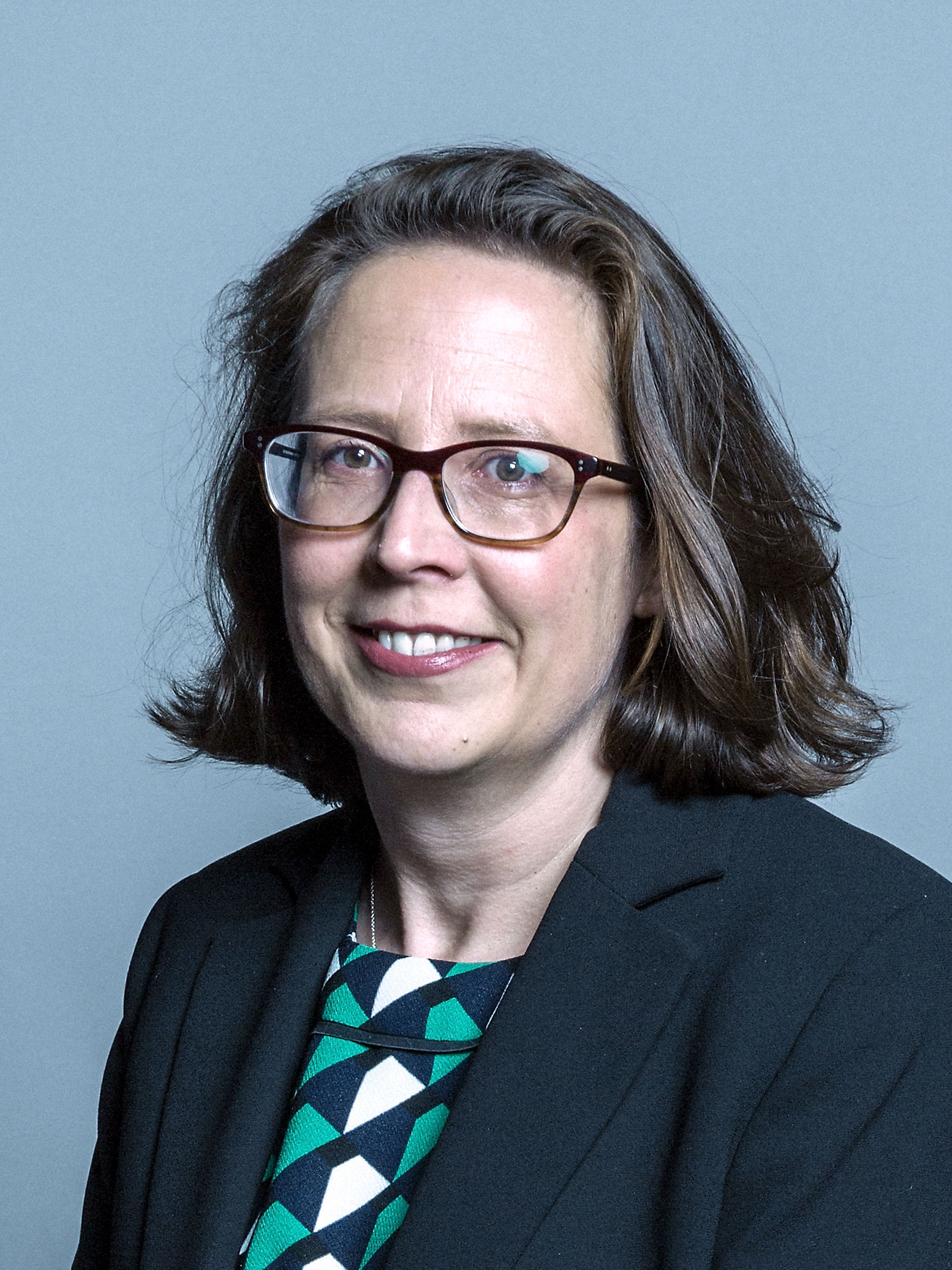 Official portrait of Baroness Evans of Bowes Park